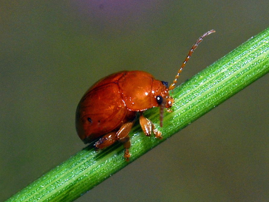 Sphaeroderma cf. testaceum. Valgrisenche, Aosta, Italy